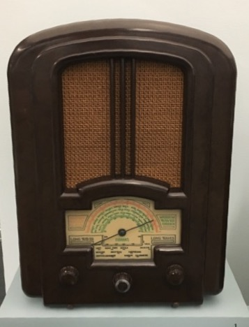 Ferranti 837 All-Wave Superhet (1937) radio. Manufactured by Ferranti, Ltd. in Manchester, England. Bakelite, plastic, fabric. On display at SFO Museum "On The Radio" exhibition in 2018.